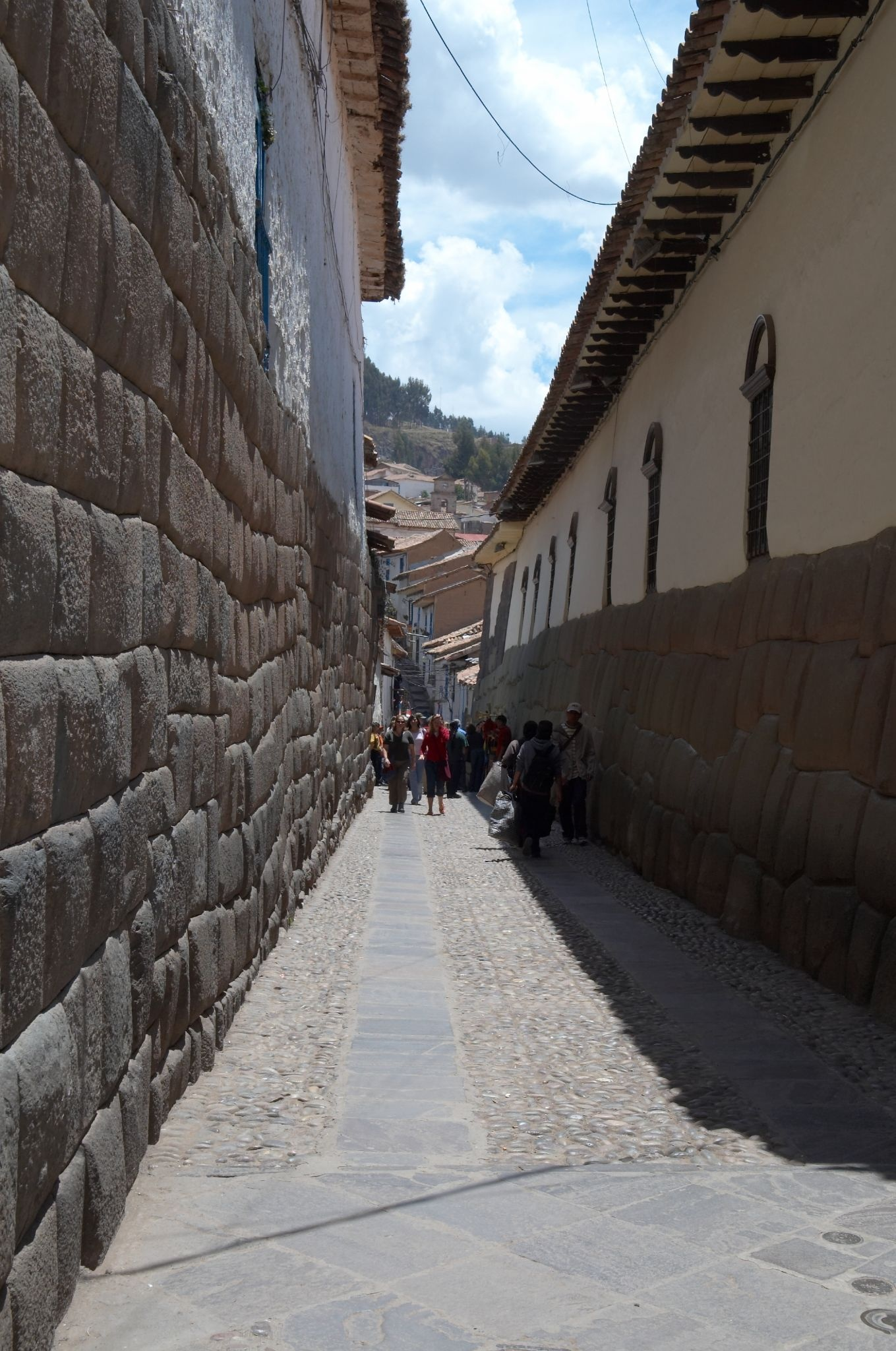 Hatunrumiyoc St. in Cusco - this is the site of the famous 12-sided stone said to represent the 12 Incan emperors.